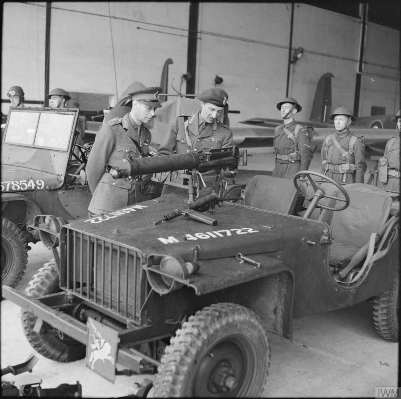 The British Army in the United Kingdom 1939-45 The King inspects an airborne jeep fitted with a Vickers machine-gun during a visit to airborne forces in Southern Command, 21 May 1942. With him is Major-General Frederick 'Boy' Browning, GOC 1st Airborne Division.